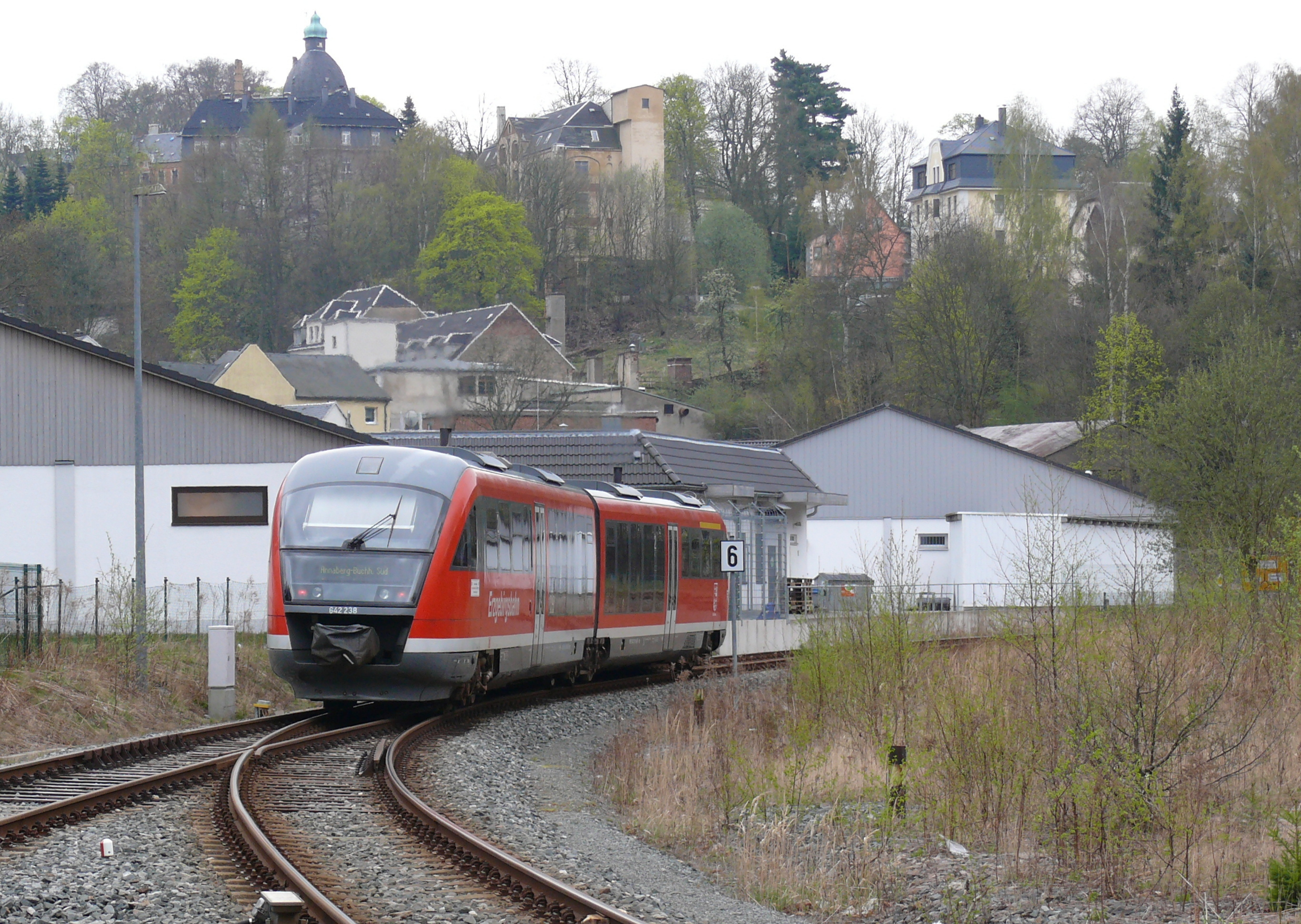 Siemens Desiro Classic Baureihe 642 738 of the Erzgebirgsbahn in Annaberg-Buchholz Unterer Bahnhof.